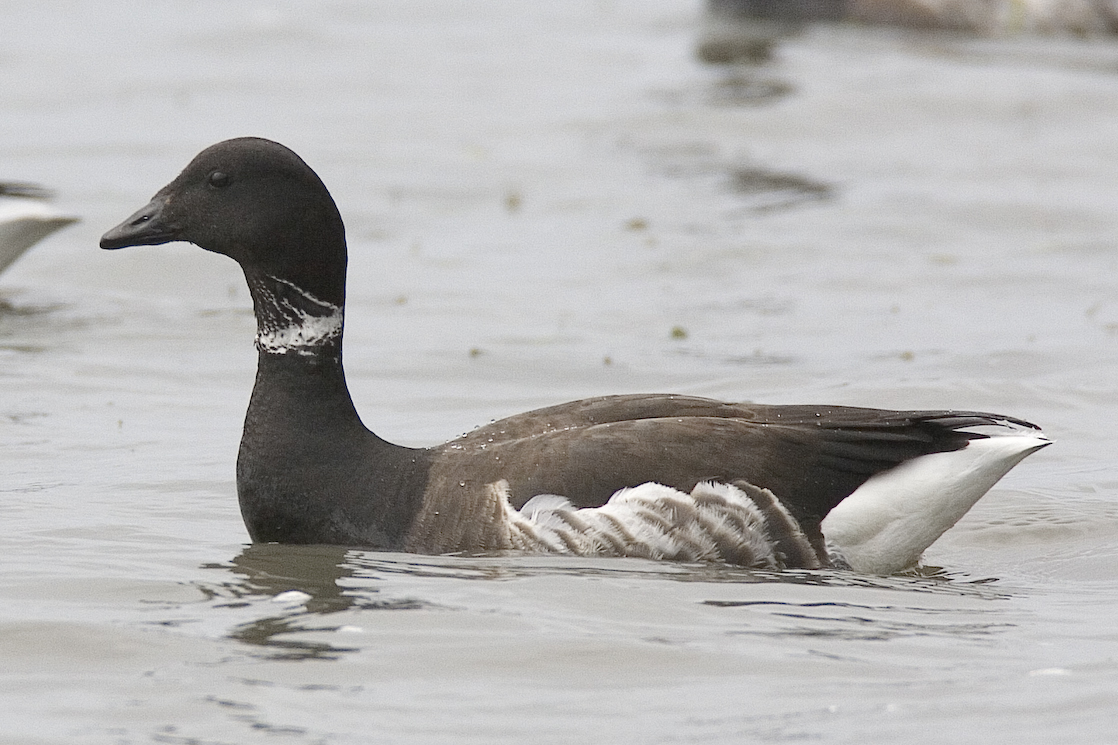 Brant Geese off Windy Cove in Morro Bay, CA, Feb 26, 2007 - photo by Mike Baird - Shot w/ a Canon 5D w/ 600 mm f/4.0 IS lens with 1.4X TE on Gitzo tripod.